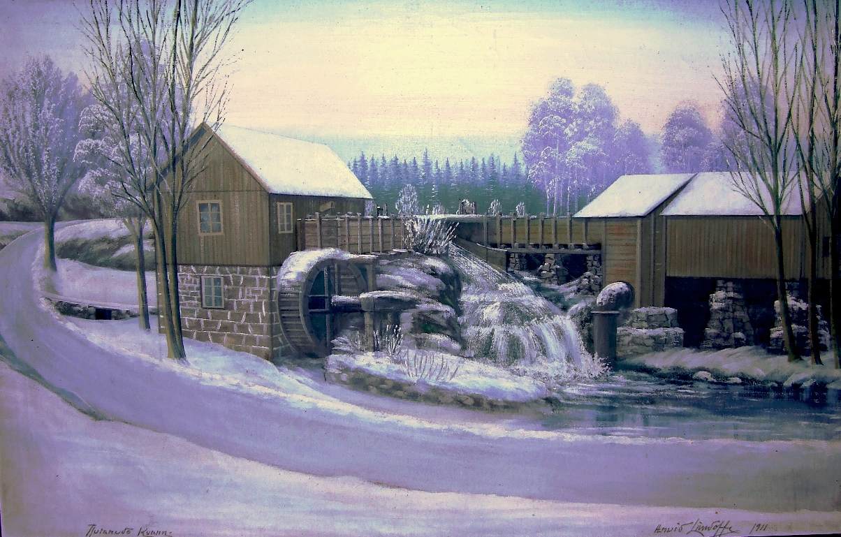 The mill in Tjutaryd